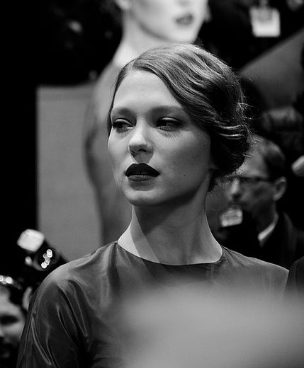 The French actress Léa Seydoux in the première of the film "La Belle Et La Bete" at the 64th Berlin International Film in 2014.